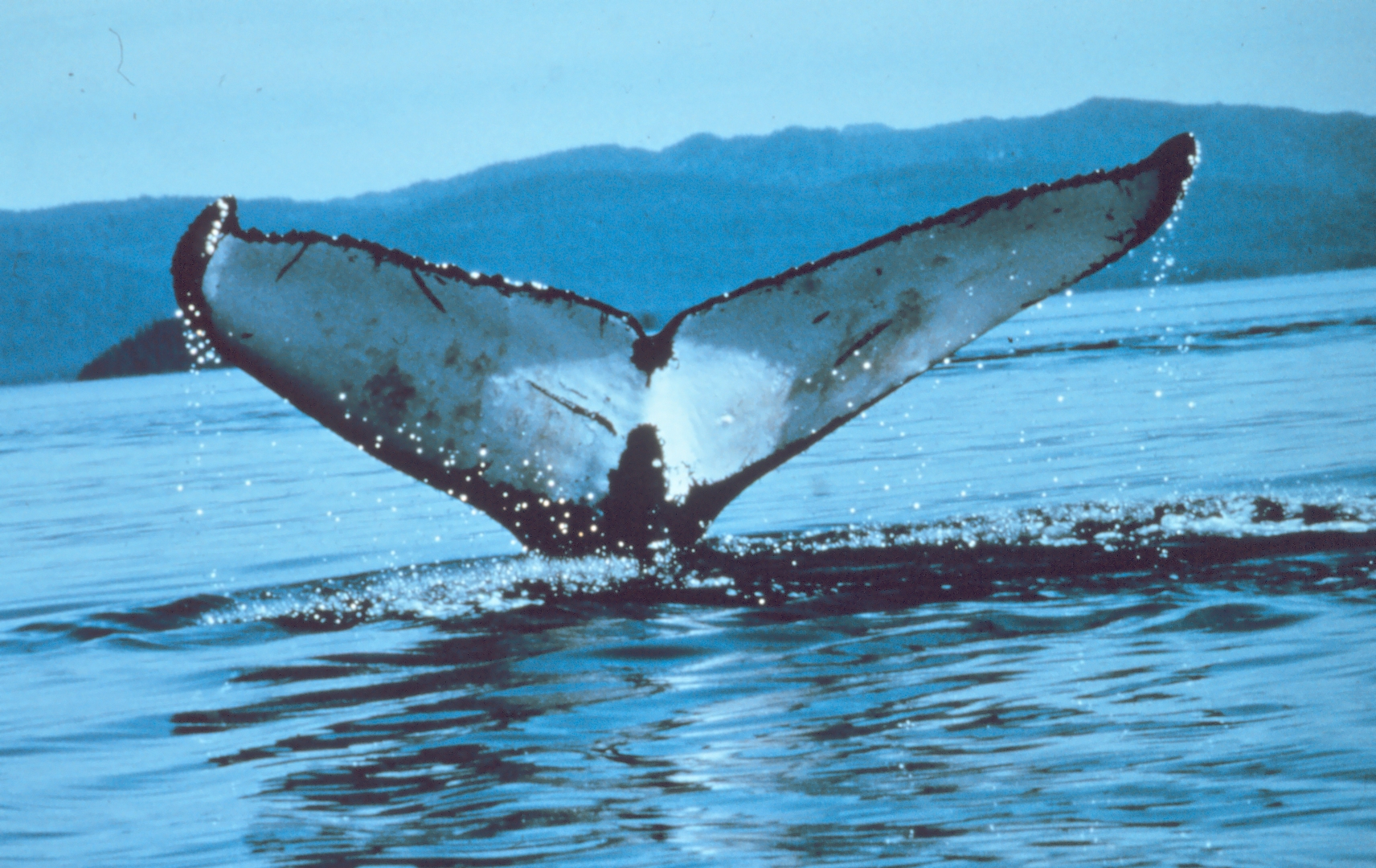 taken on 30 AUG 2005 from Wikipedia (Image:Humpbackwhale00.jpg) This image of a Humpback Whale was taken by Captain Budd Christman of the National Oceanic and Atmospheric Administration. Because the photo was taken by a U.S. Government employee during the course of his work, it is in the public domain.